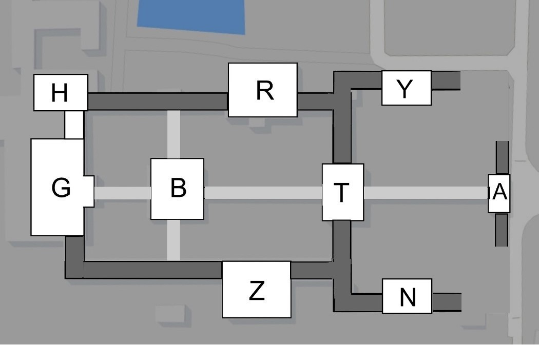 Layout of Zuiryu-ji atTakaoka